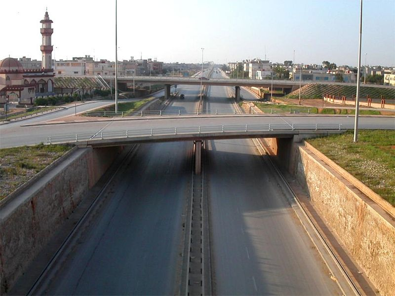 El Leitti neibourhood, Benghazi.